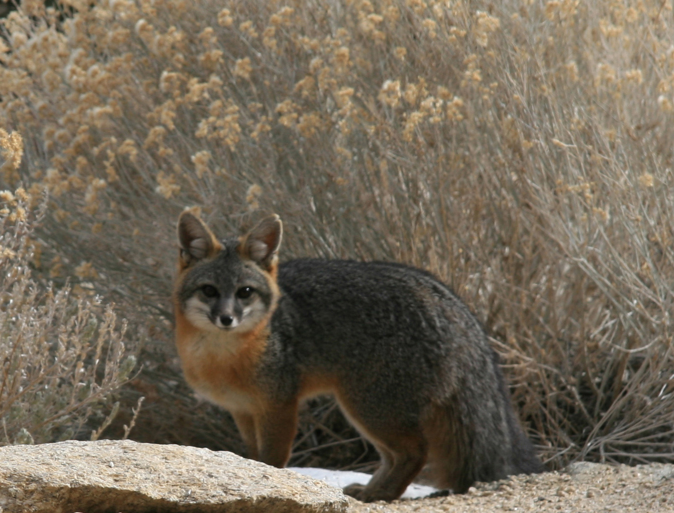 Urocyon cinereoargenteus (gray fox) at 7000ft in Eastern Sierras, in front of rabbitbrush. Full face, looking at camera.